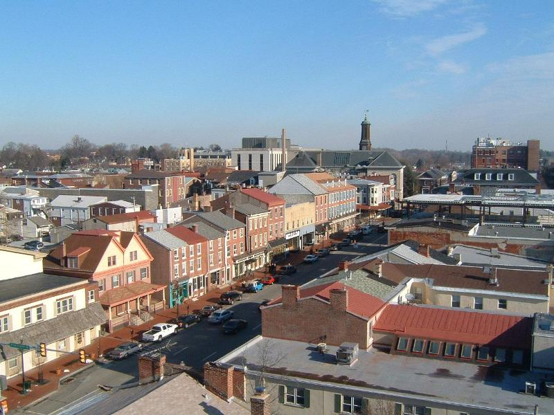 Town center of West Chester. View looks northeast along Market Street from Darlington Street. [Added by Nyttend: this block is included in the West Chester Downtown Historic District, which is listed on the National Register of Historic Places.]